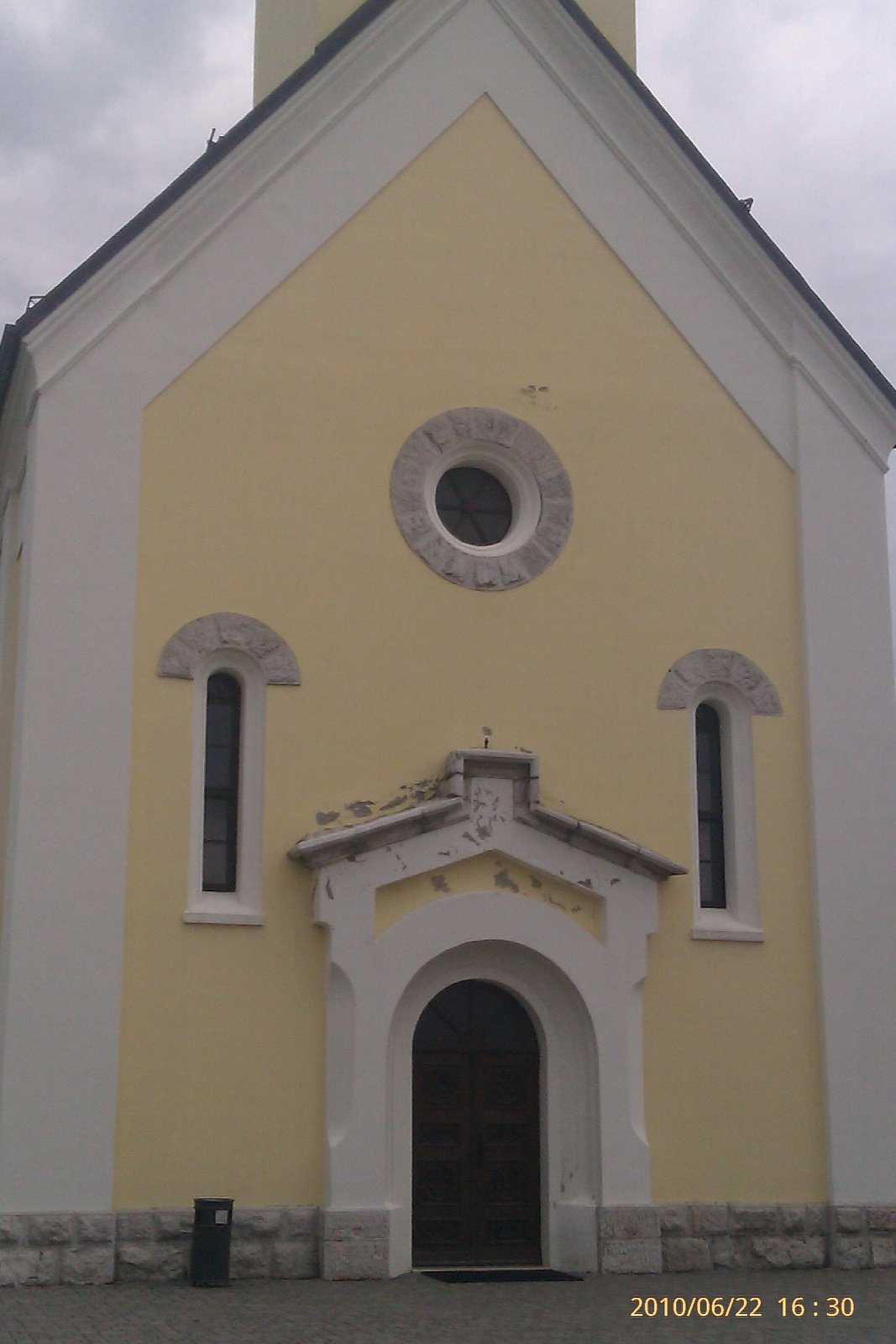 Littile church in Croatia